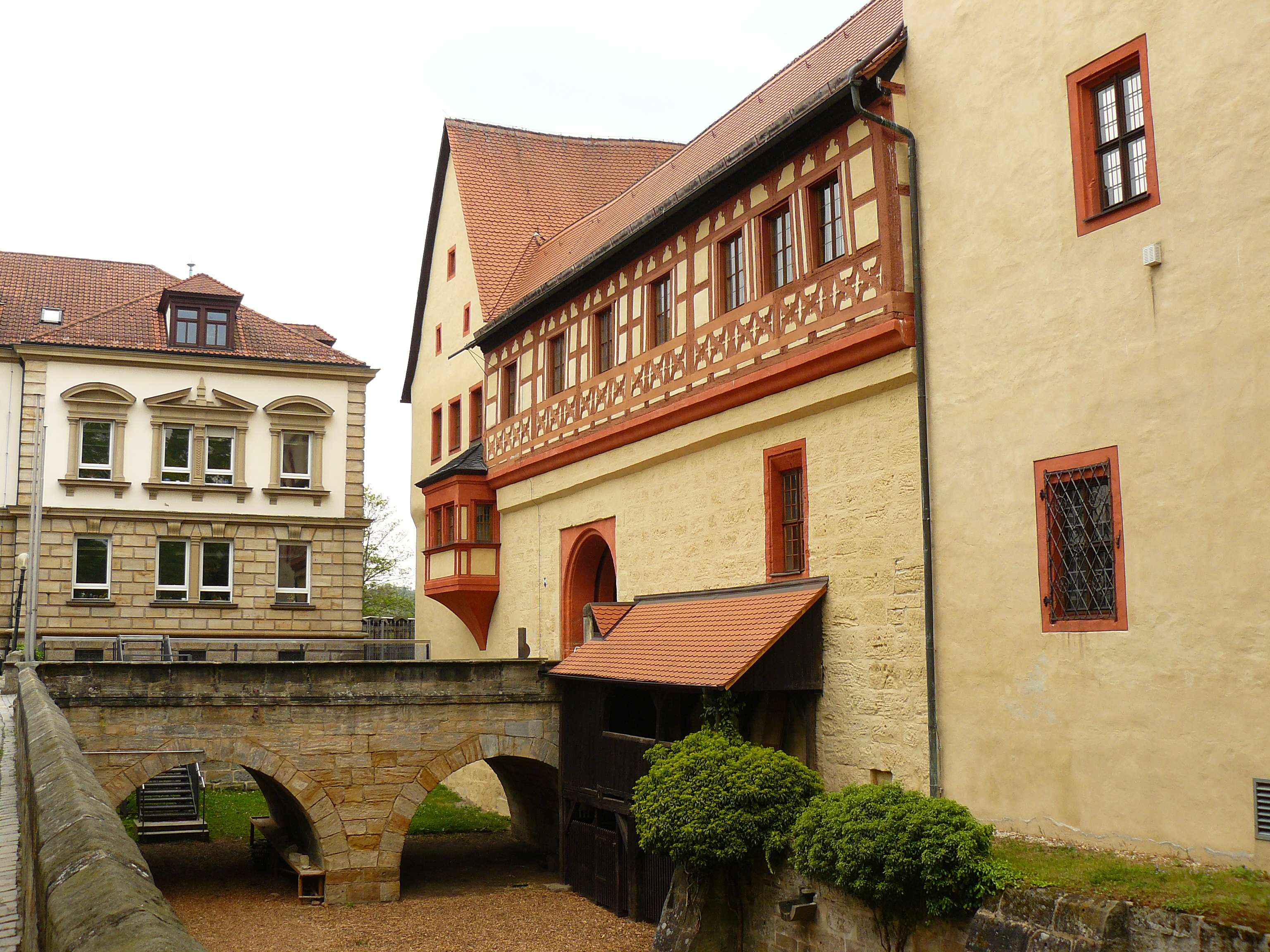 Burg Forchheim so called "Kaiserpfalz"